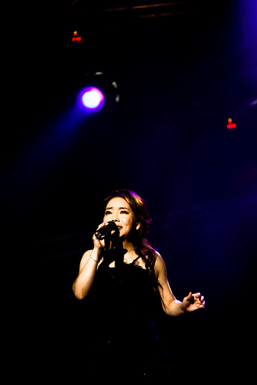 Winnie Hsin at Live Earth China @ Shanghai Oriental Pearl TV Tower